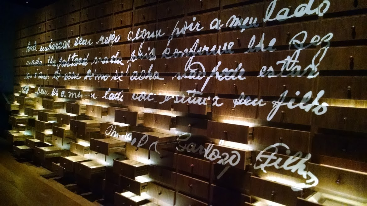 Cartas de Chamada